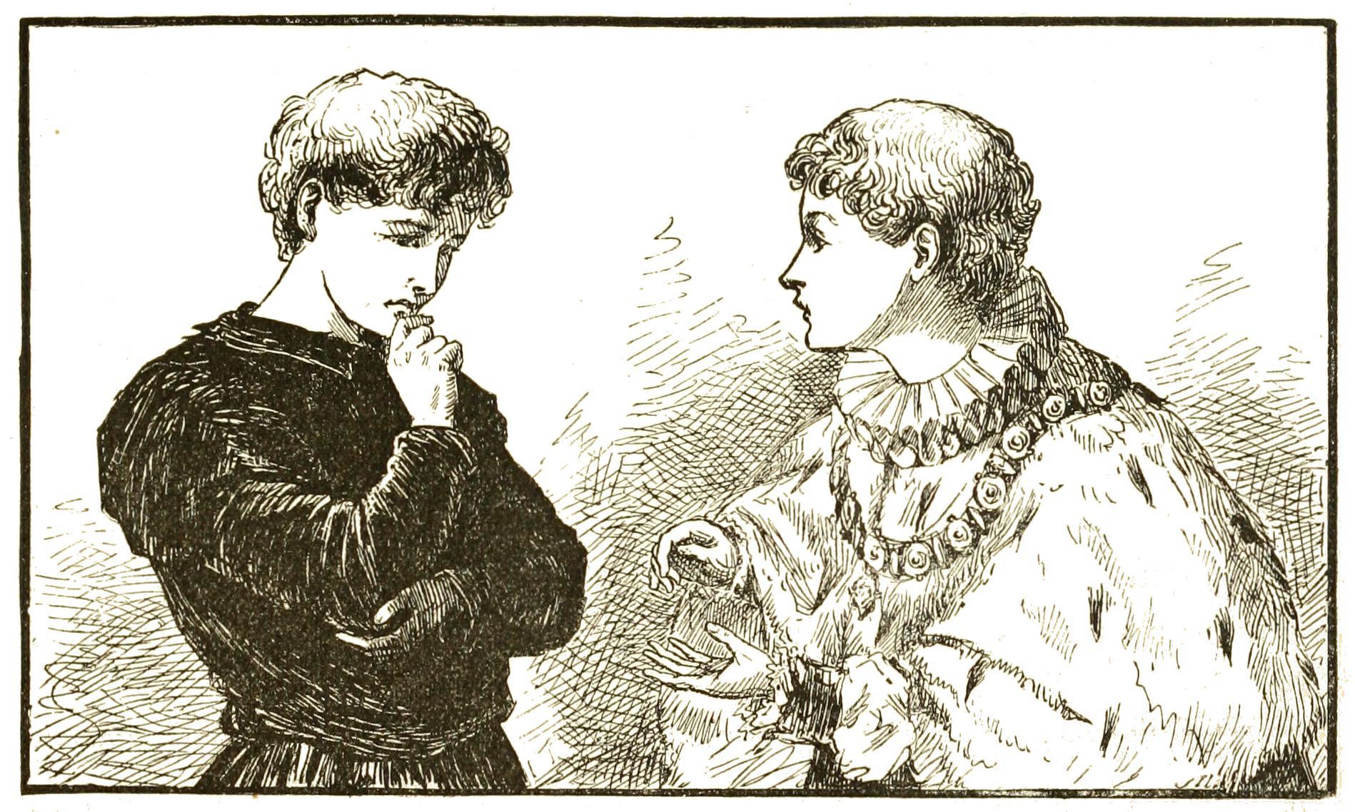 Illustrations de The Prince and The Pauper, 1882.